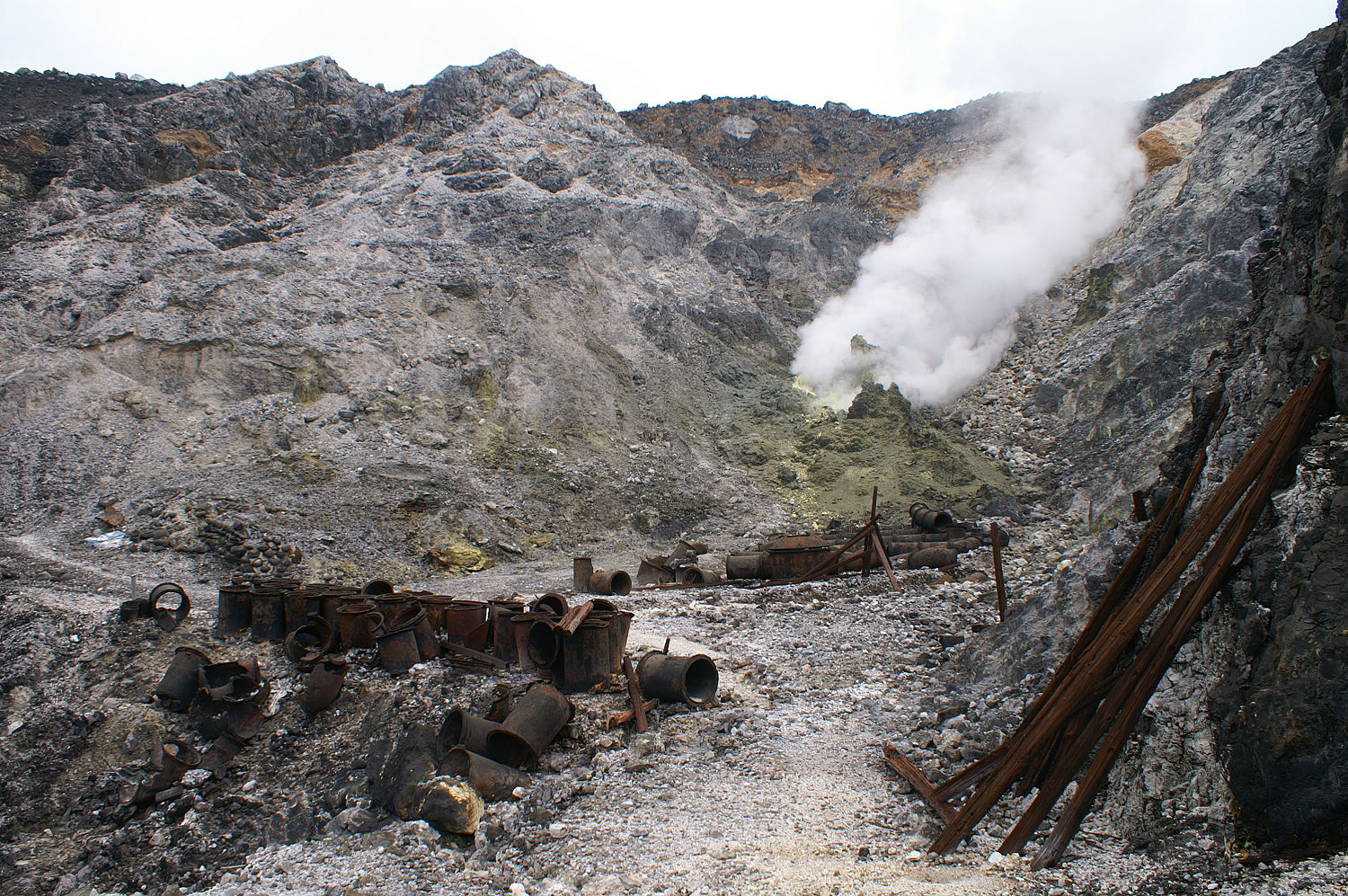 Da You Keng Fumarole 大油坑